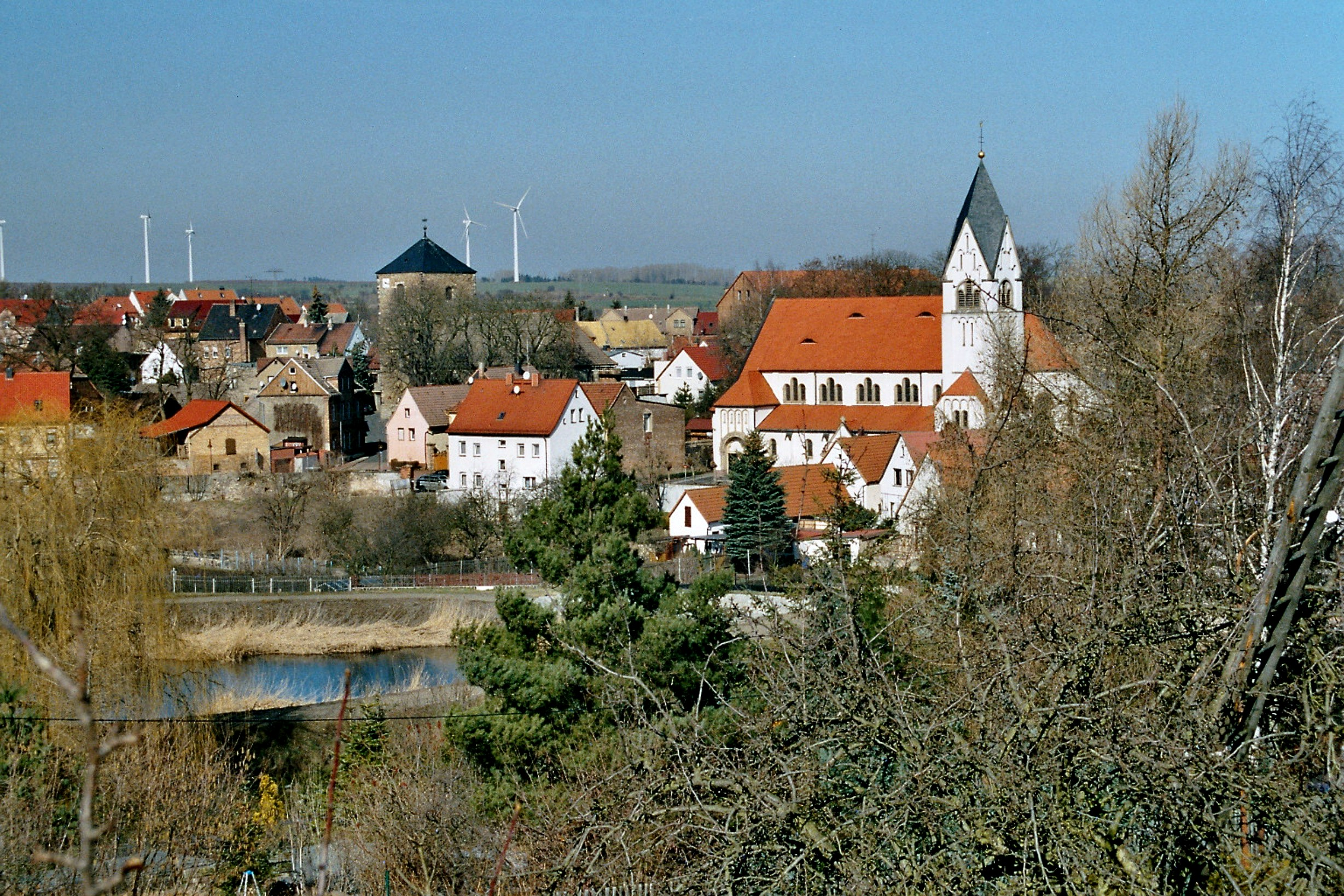 Helbra, Blick vom Lehberg zur katholischen Kirche St. Barbara This is a photograph of an architectural monument. 75343